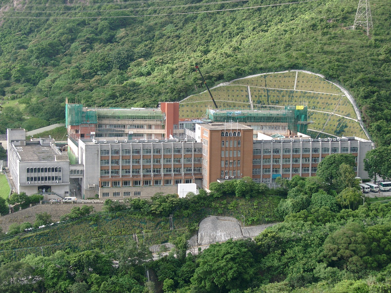 Good Hope School in Hong Kong, which is near to Kowloon Peak